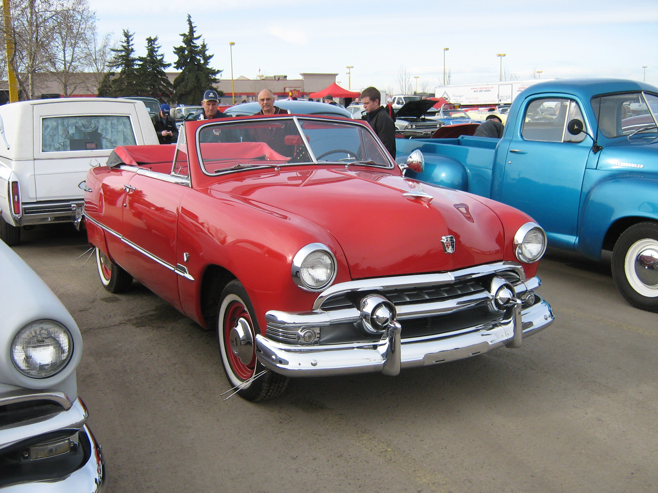 Red 1951 Ford Convertible with curb feelers.